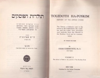 Toledoth Ha-poskim History of the Jewish Codes Volume II by Chaim Tchernowitz (Rav Tzair). Jubilee Committee (1947).